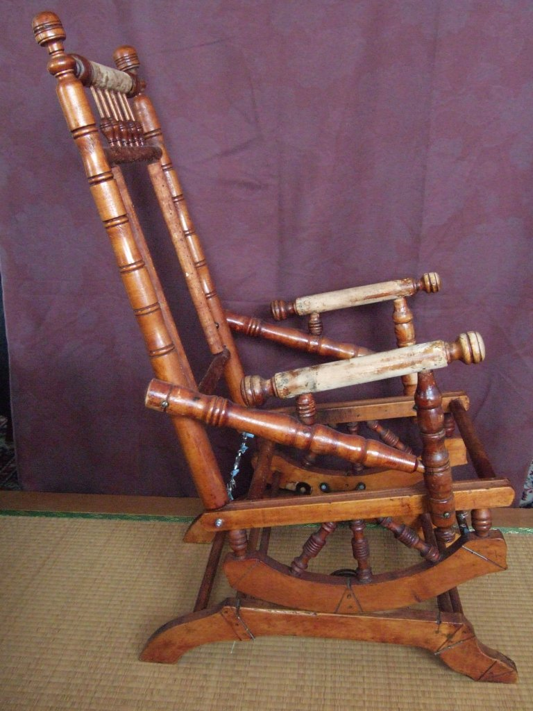 The platform rocker from Frank's home growing up. Originally carried to California by covered wagon, by a great aunt of my father. It has been through many reupholsterings, and is about to go through another.